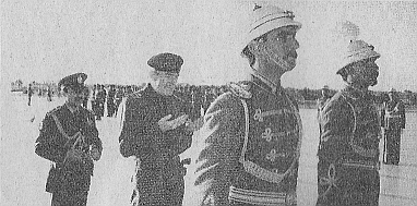 Iraqi politician (Deputy chairmann of the Revolutionary Command Council) Izzat Ibrahim ad-Duri